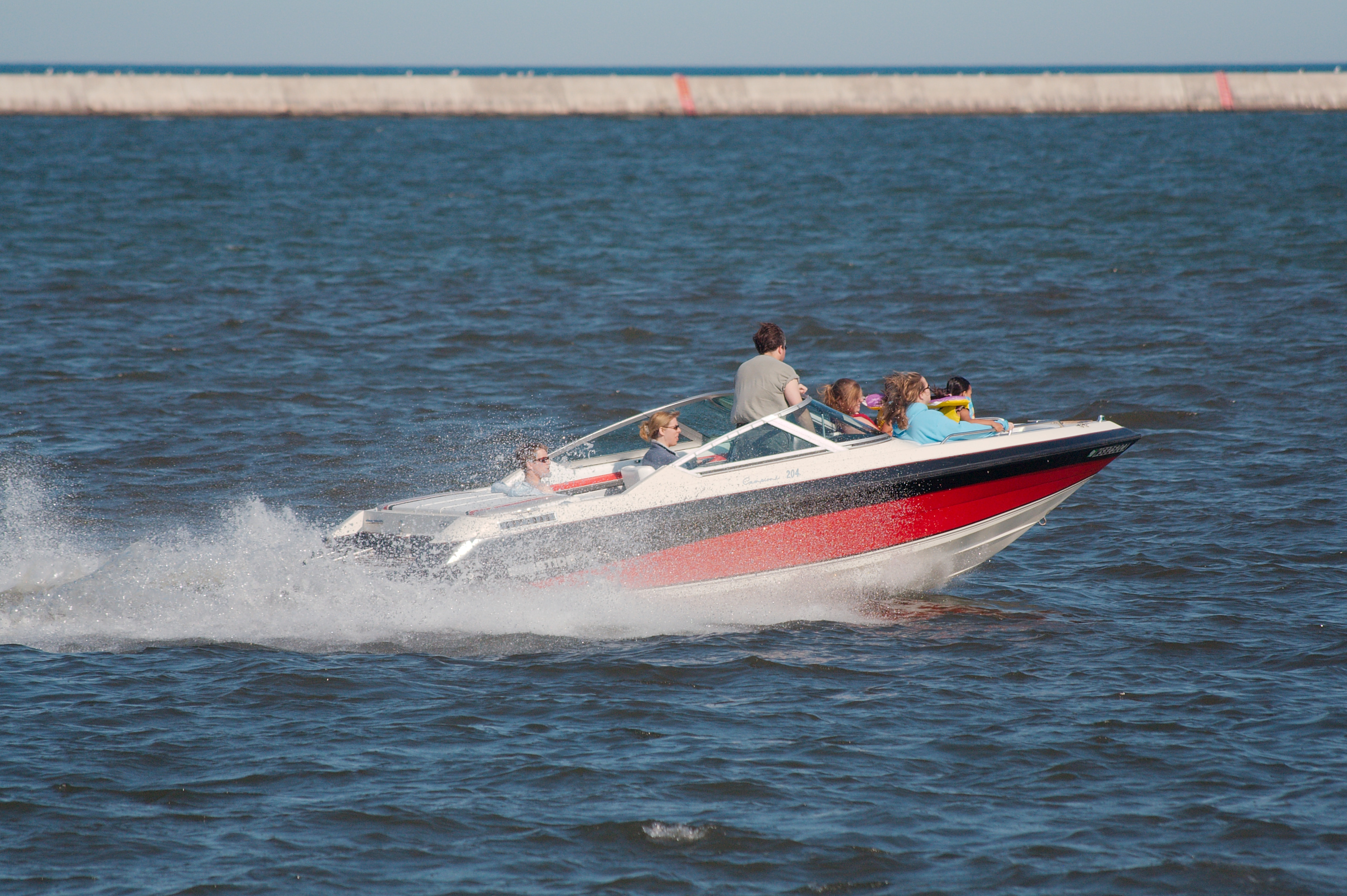 A speed boat in the Milwaukee harbor